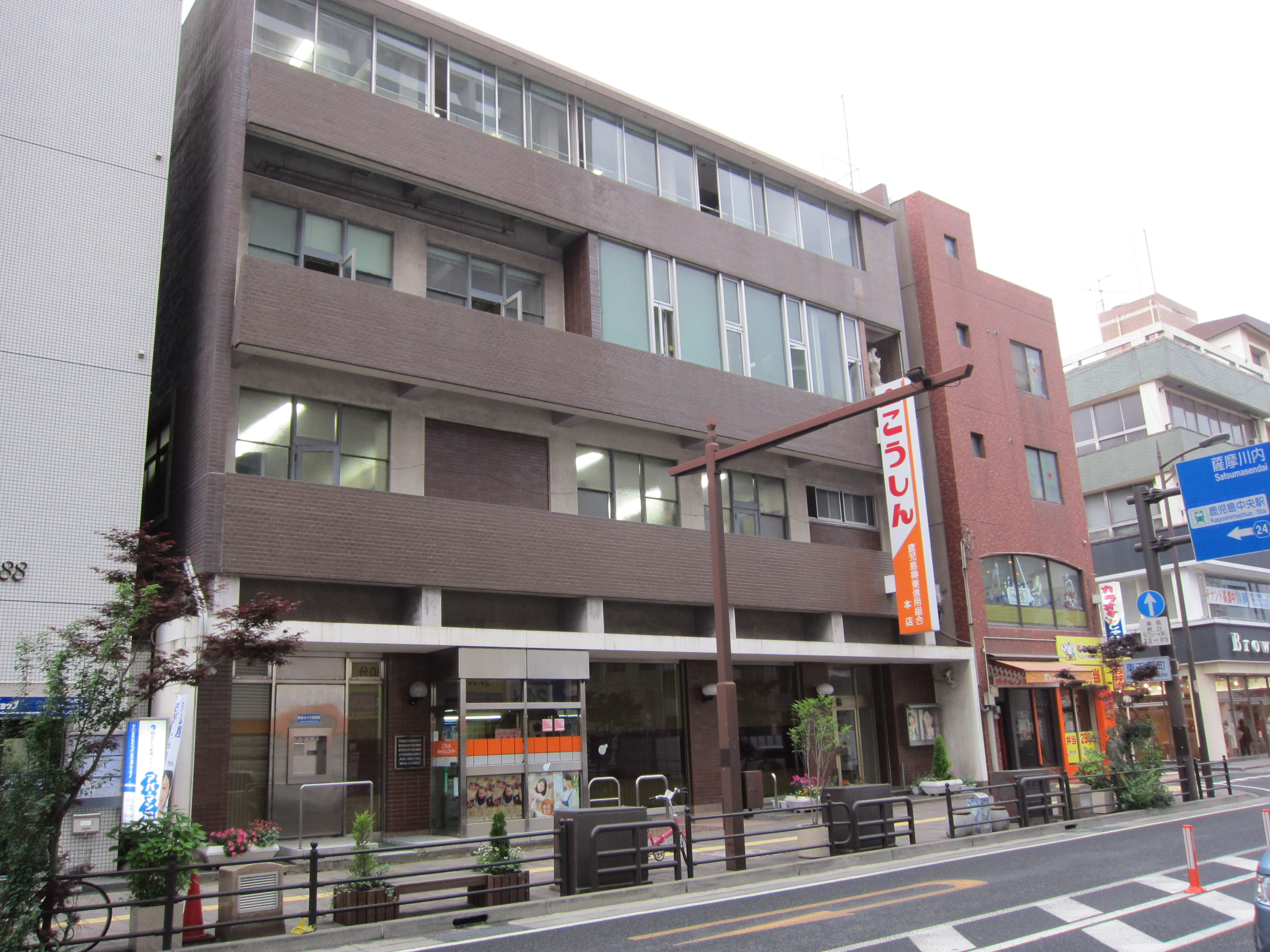 Kagoshima Kogyo Credit Union Bank